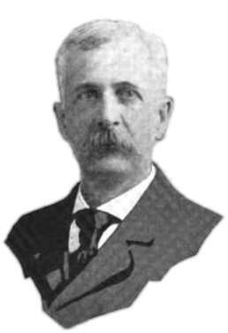 Theodore E. Hancock, lawyer